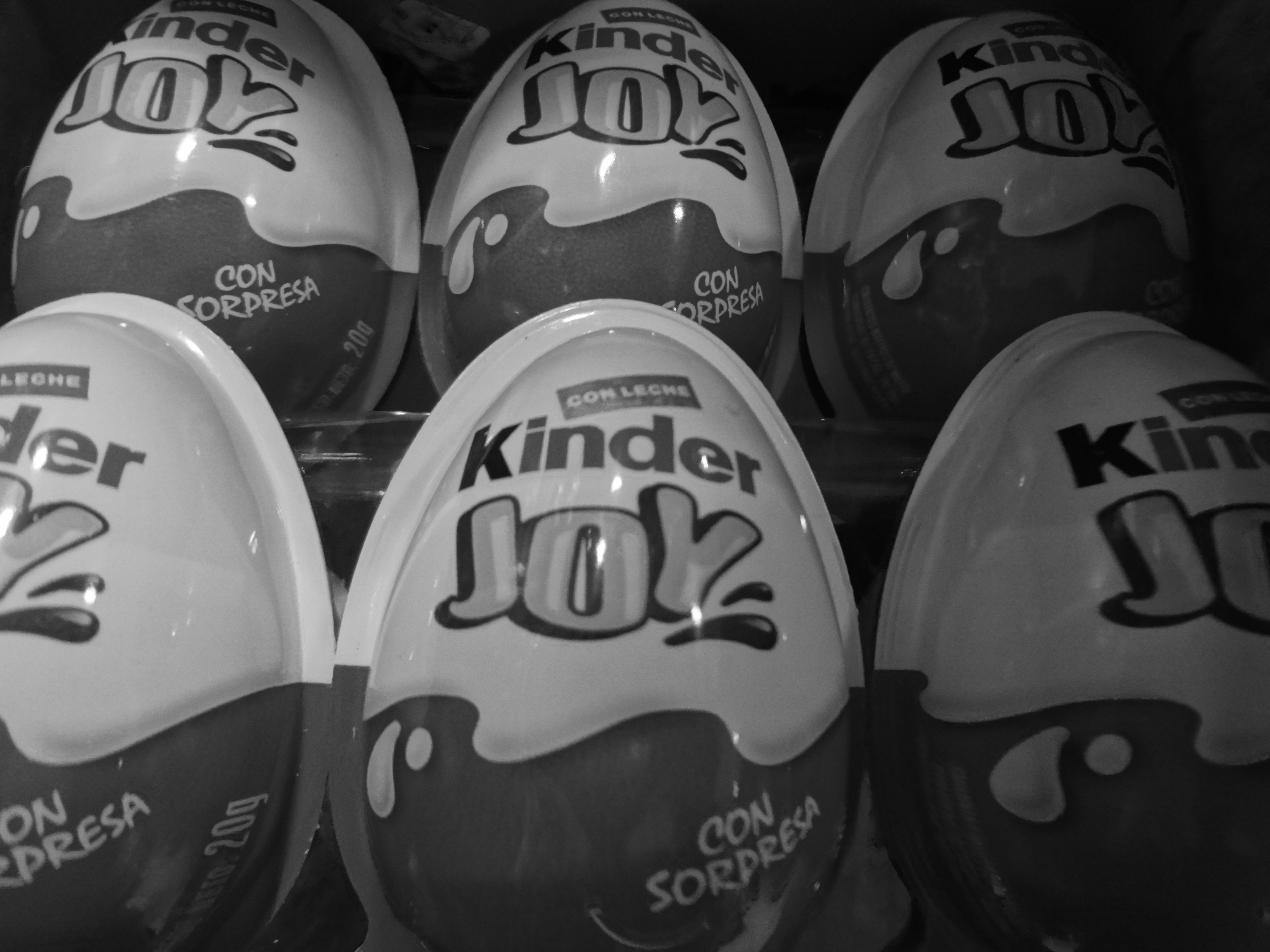 Historic Center of Quito, Kinder Joy Display (In Spanich) in a small store in the Centro Histórico de Quito Photography by David Adam Kess